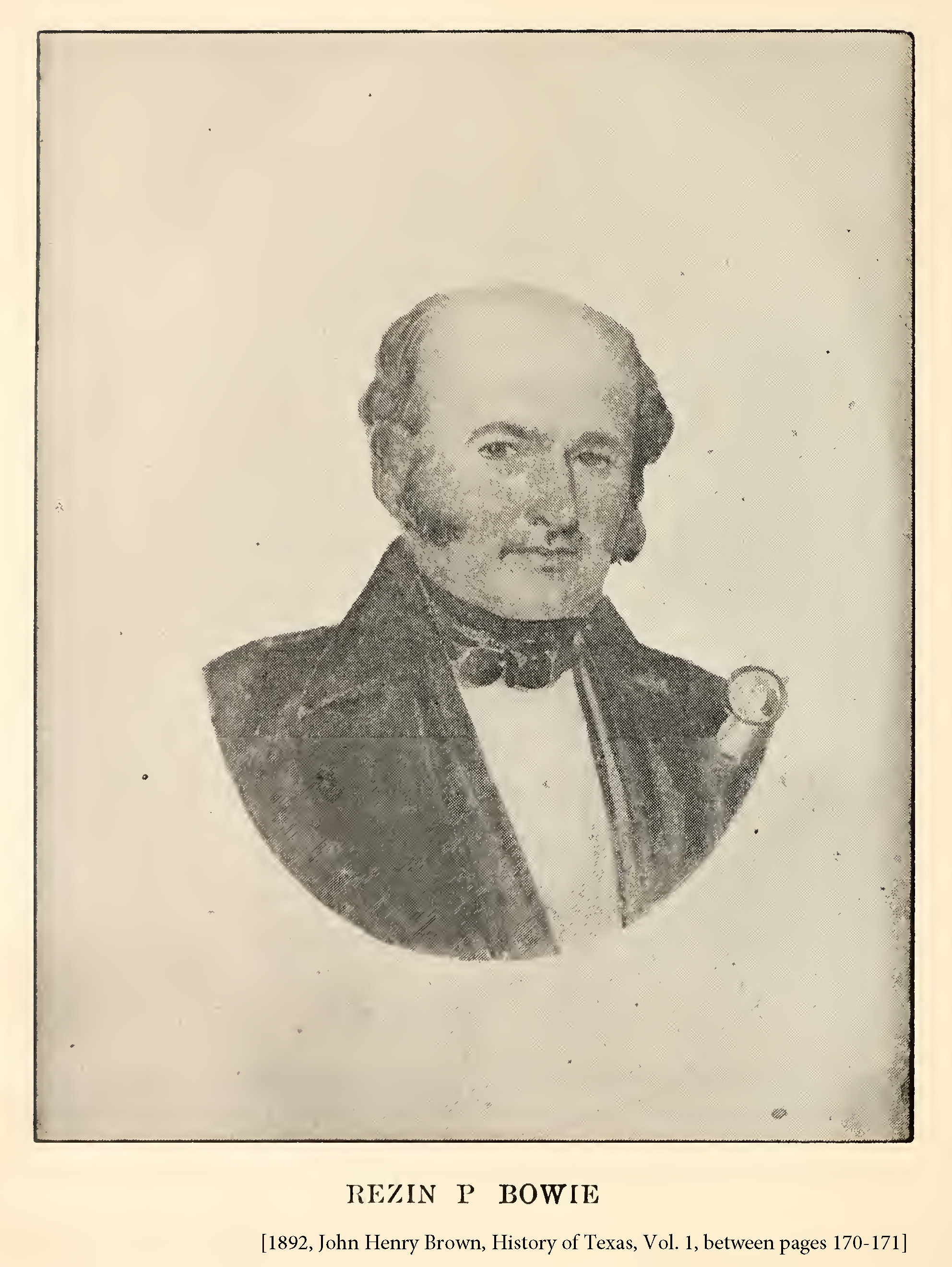 Portrait of Rezin Pleasant Bowie [brother of James Bowie of Alamo fame & inventor of the "Bowie knife"], an illustration from John Henry Brown's History of Texas #1892, Vol# 1, between pages 170 & 171##